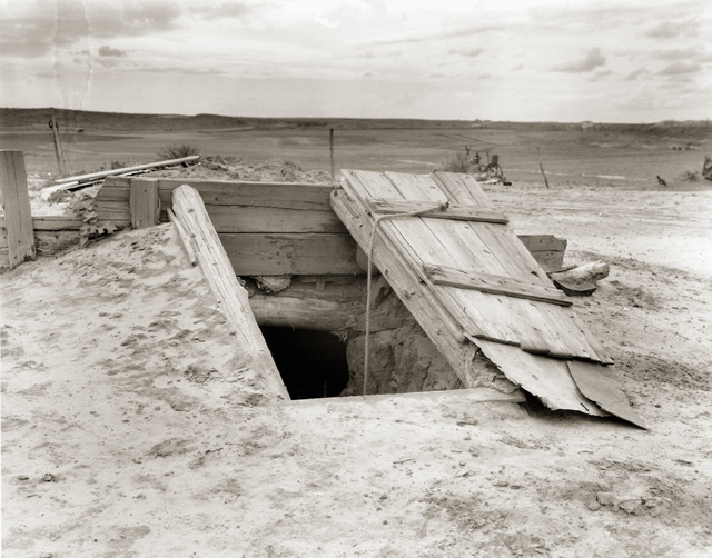 Storm cellar on the Texas plains, West Texas panhandle. Image Number: 01di1342 & CD8174-342